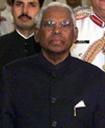 President of India Kocheril Raman Narayanan.